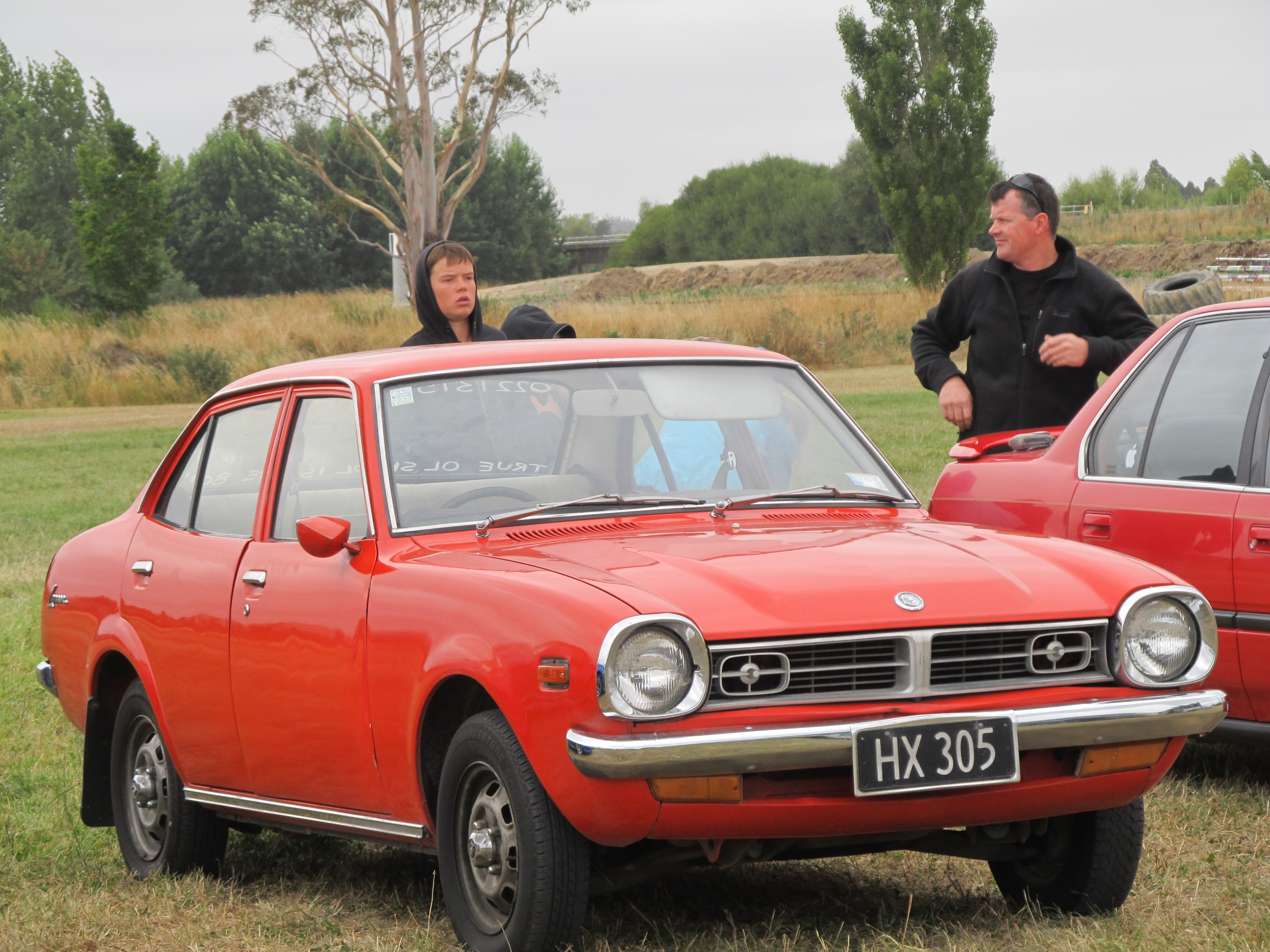 HX305 This is the oldest MkI Lancer I have ever seen! These are great looking cars, and they're definitely on my 'to own' list. This show was pretty good, even if the selection was mostly American and the weather turned pear-shaped. This was in the car park.